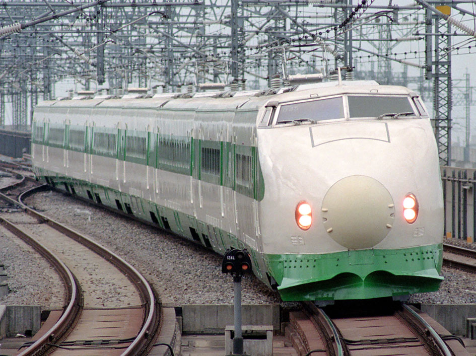 200 series set G45 at Omiya Station, circa 1990